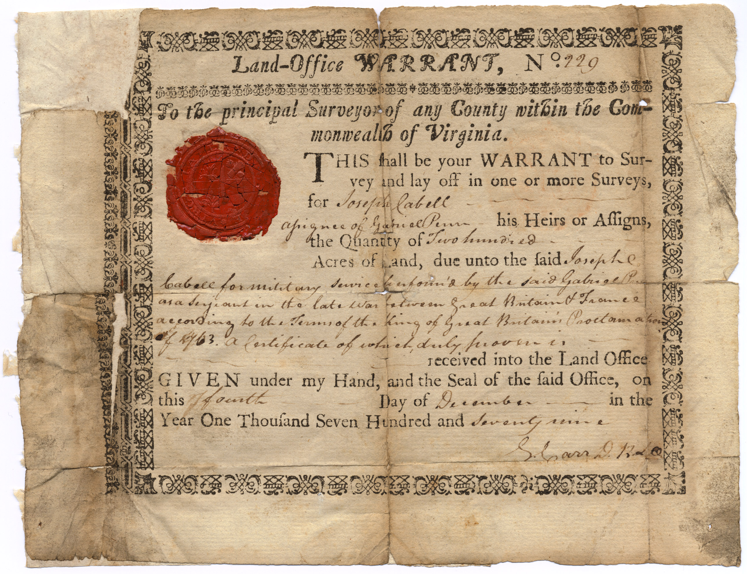 Virginia Land Office warrant in the name of Joseph Cabell, assignee of Gabriel Penn. Warrant directs the principal surveyor of any Virginia county to lay off one or more surveys totaling 200 acres. Virginia owed Cabell acreage for Sgt. Penn's service in the French and Indian War, and according to the terms of King George III's proclamation of 1763. Sgt. Gabriel Penn of Amherst County, Virginia, was born 17 July 1741, and served as a sergeant in the First Virginia Regiment under Col. William Byrd in 1764. Penn was a member of the Revolutionary Convention. He married Sarah, daughter of Col. Richard Calloway of Bedford County, Virginia, and died in 1798. Sgt. Gabriel Penn's brother was Col. Abraham Penn, an officer of the militia of Henry County, Virginia, during the American Revolution. Gabriel Penn's first cousin was John Penn, a Virginia native who was a signer of the Declaration of Independence from North Carolina.[1][2][3]